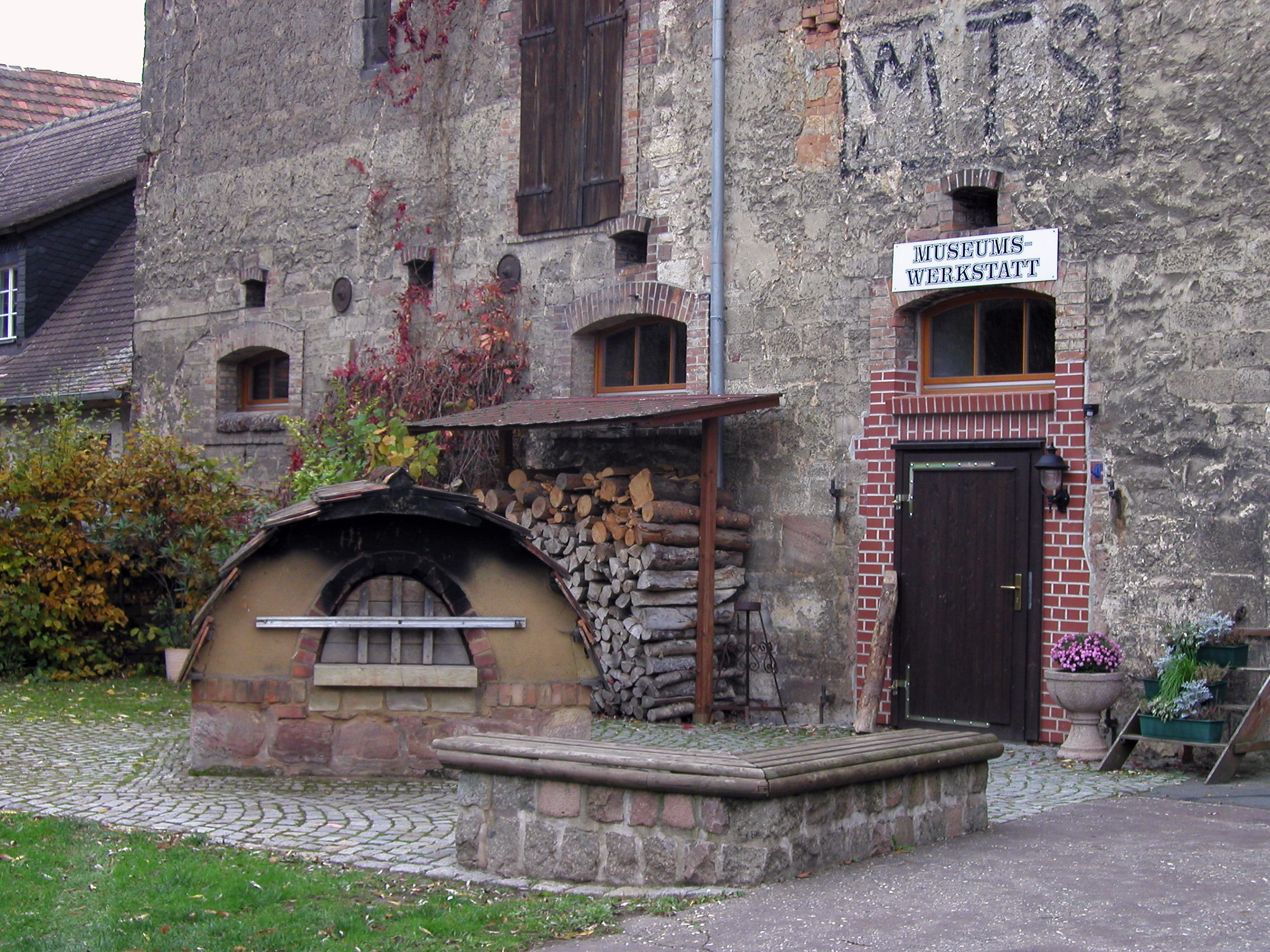 The Museum in Thalbürgel